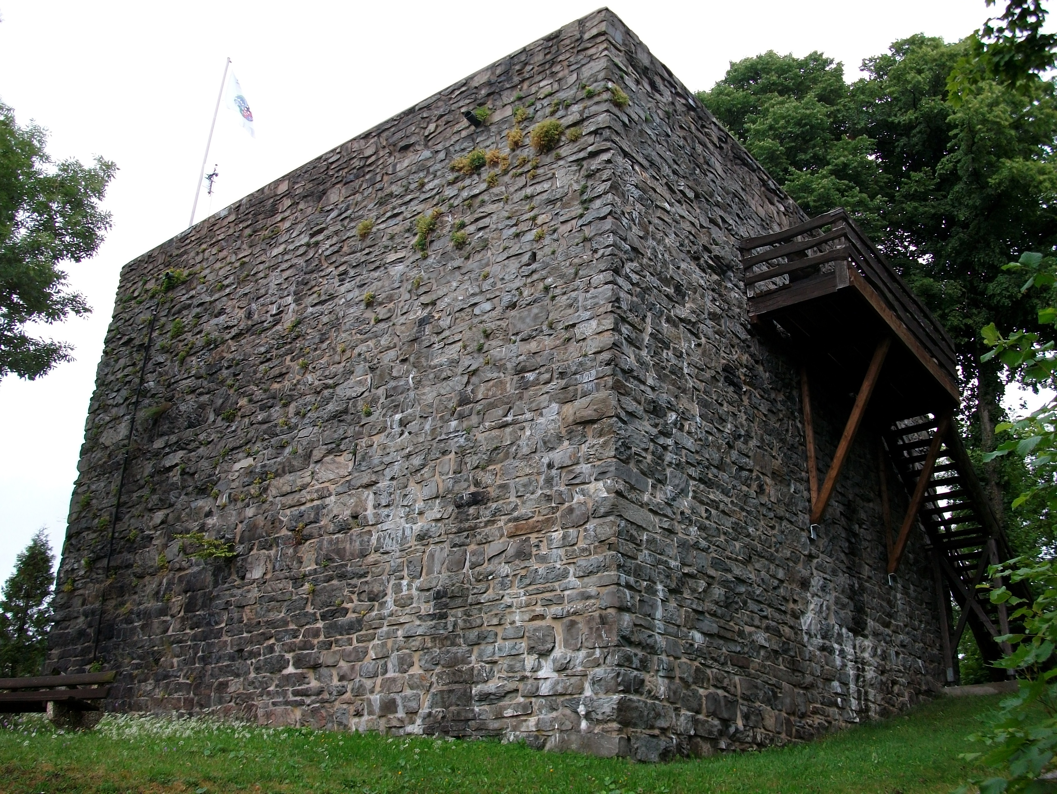 Burgruine Rappelstein, Schmallenberg (Germany)